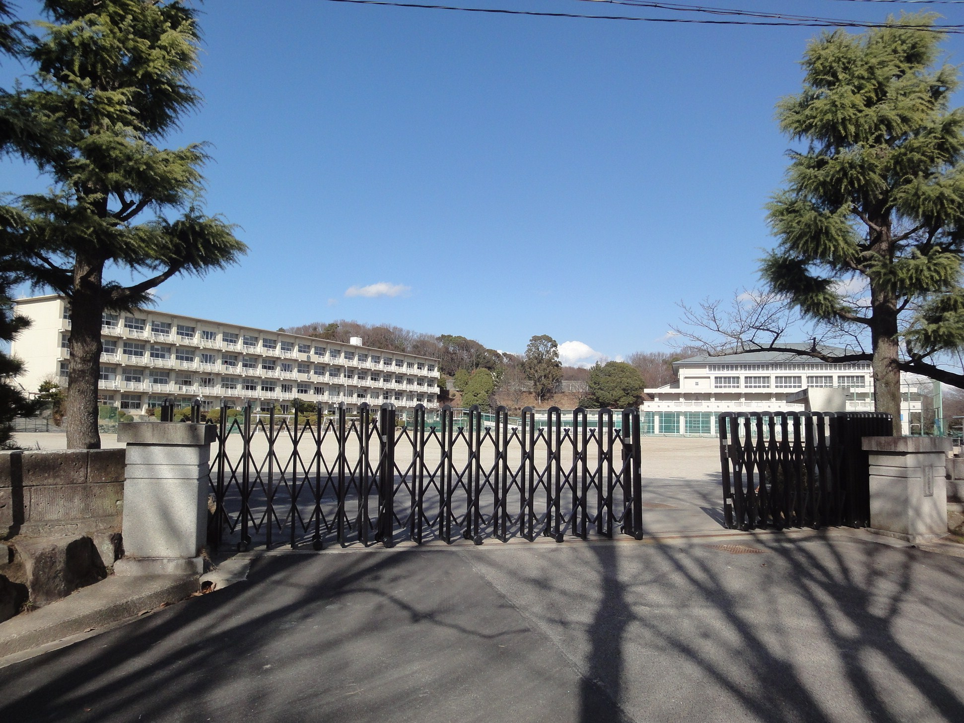 Kozan Junior High School in Okazaki City, Aichi Prefecture, Japan.